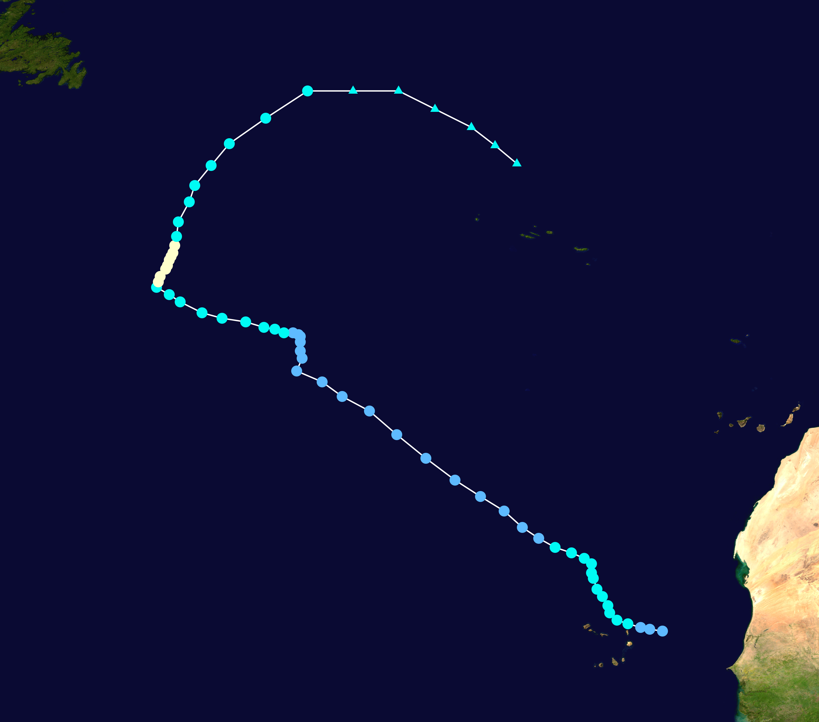 Hurricane Felix (1989) track. Uses the color scheme from the Saffir-Simpson Hurricane Scale.